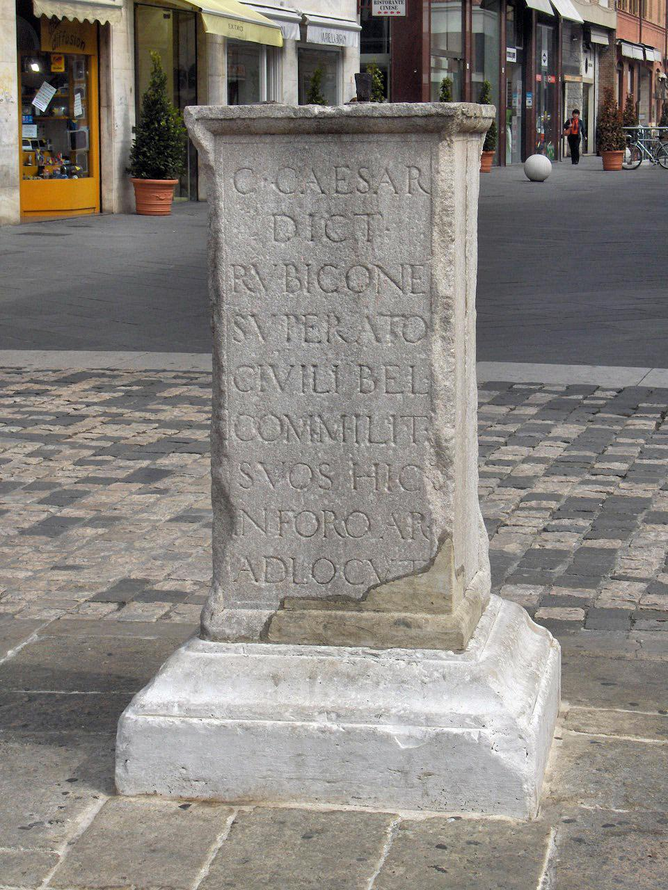 Column of Julius Caesar, where he addressed his army to march on Rome and start the Civil War, Rimini, Italy